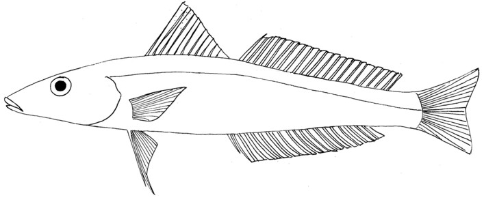 Hand drawn diagram of the Japanese whiting, Sillago japonica. Based on McKay 1985 and colour slides.